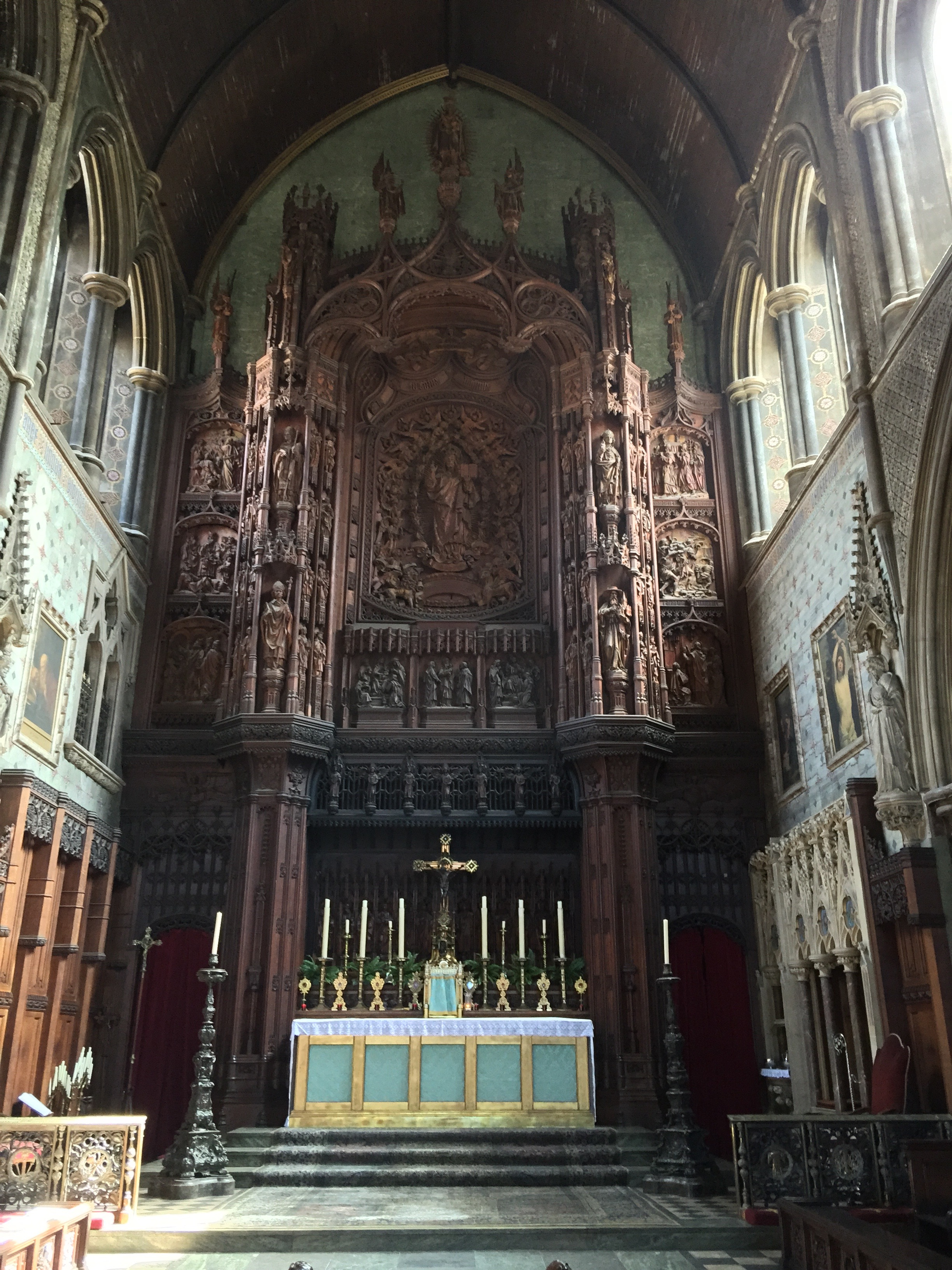 St Cuthberts Reredos & High Altar